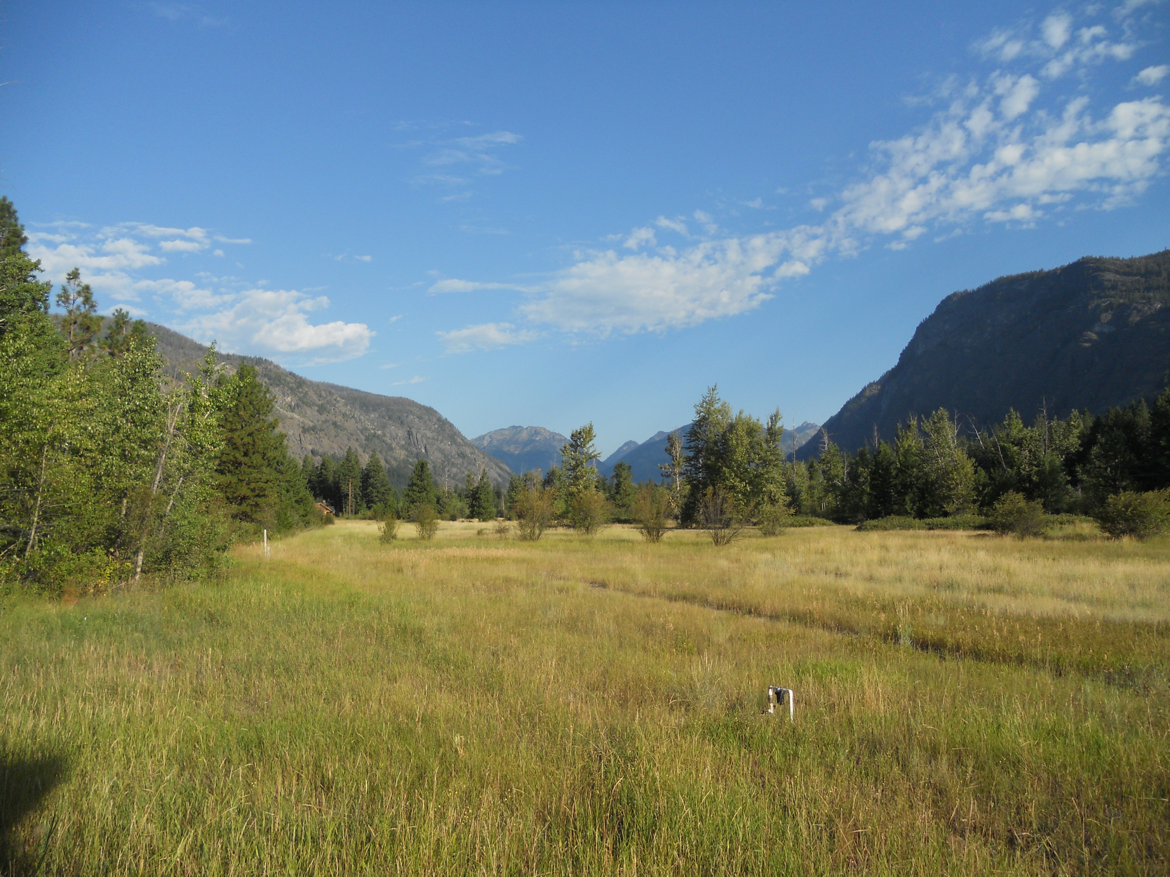 A tall-grass field in the Methow Valley at Mazama, Washington, an unincorporated community in Okanogan County